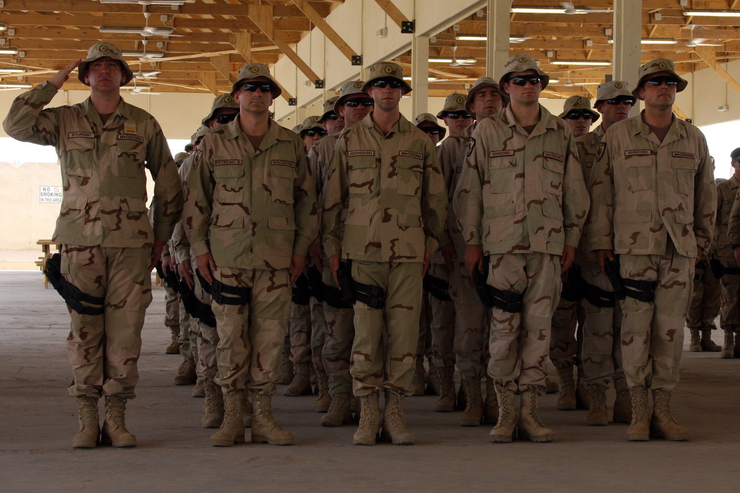 Soldiers from the Macedonian army platoon stand at attention as they play the Macedonian national anthem, "Today over Macedonia," during a Transfer of Authority ceremony at the Sgt. John M. Schoolcraft III Pavilion at Camp Taji, northwest of Baghdad, June 23.